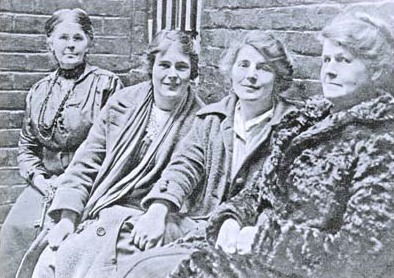 From left to right: a prison warden, Hettie Wheeldon, Winnie Mason, and Alice Wheeldon.